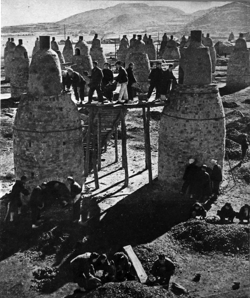 Soil blast furnaces.